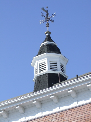 Ornamental cupola and wind vane on the 1903 Kings County Courthouse in Kentville, Nova Scotia Canada, now the Kings County Museum.